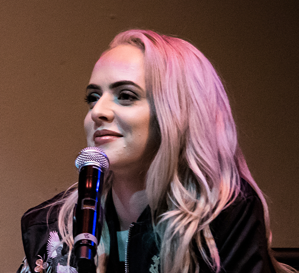 Madilyn Bailey at USC Bovard Auditorium